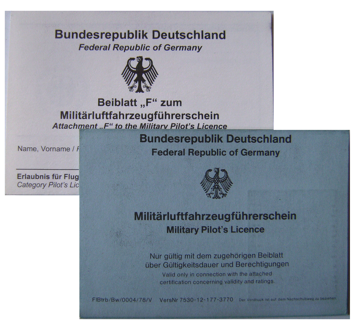 German Military Pilots Licence (Bundeswehr)